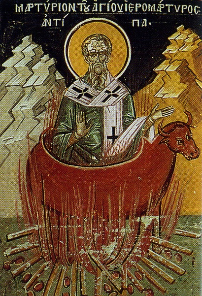 Saint Antipas of Pergamum (fresco in Rousanu)